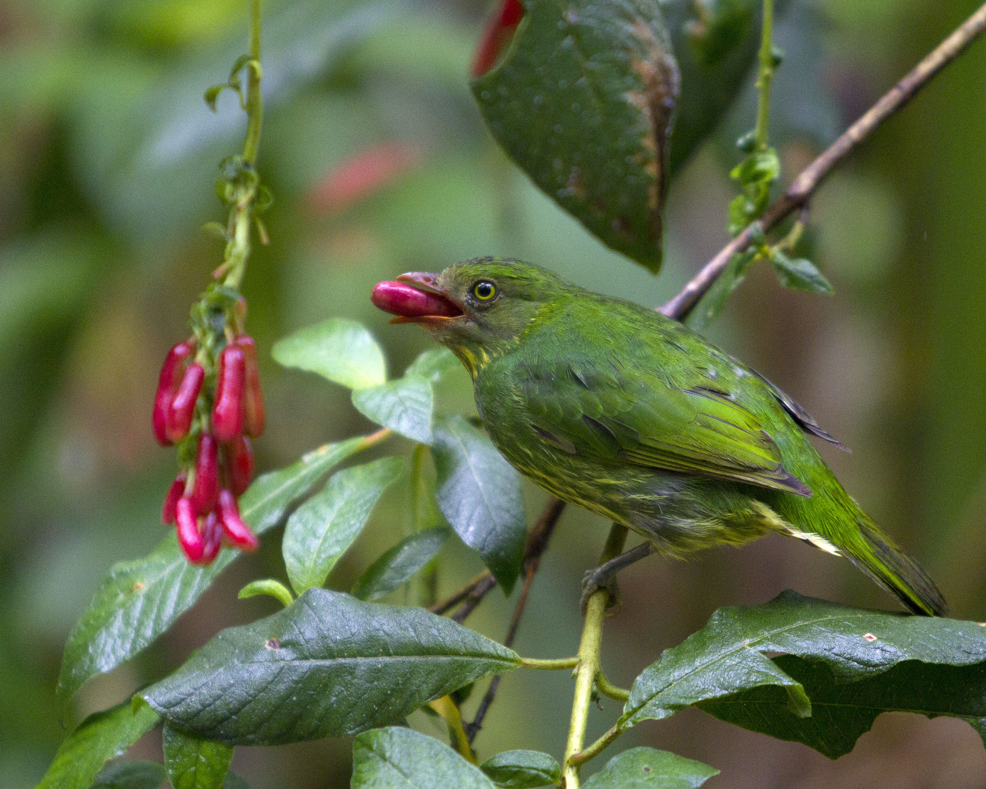 A Masked Fruiteater (Pipreola pulchra) photographed by Devon Pike near Puente Ruenas Peru in 2011.